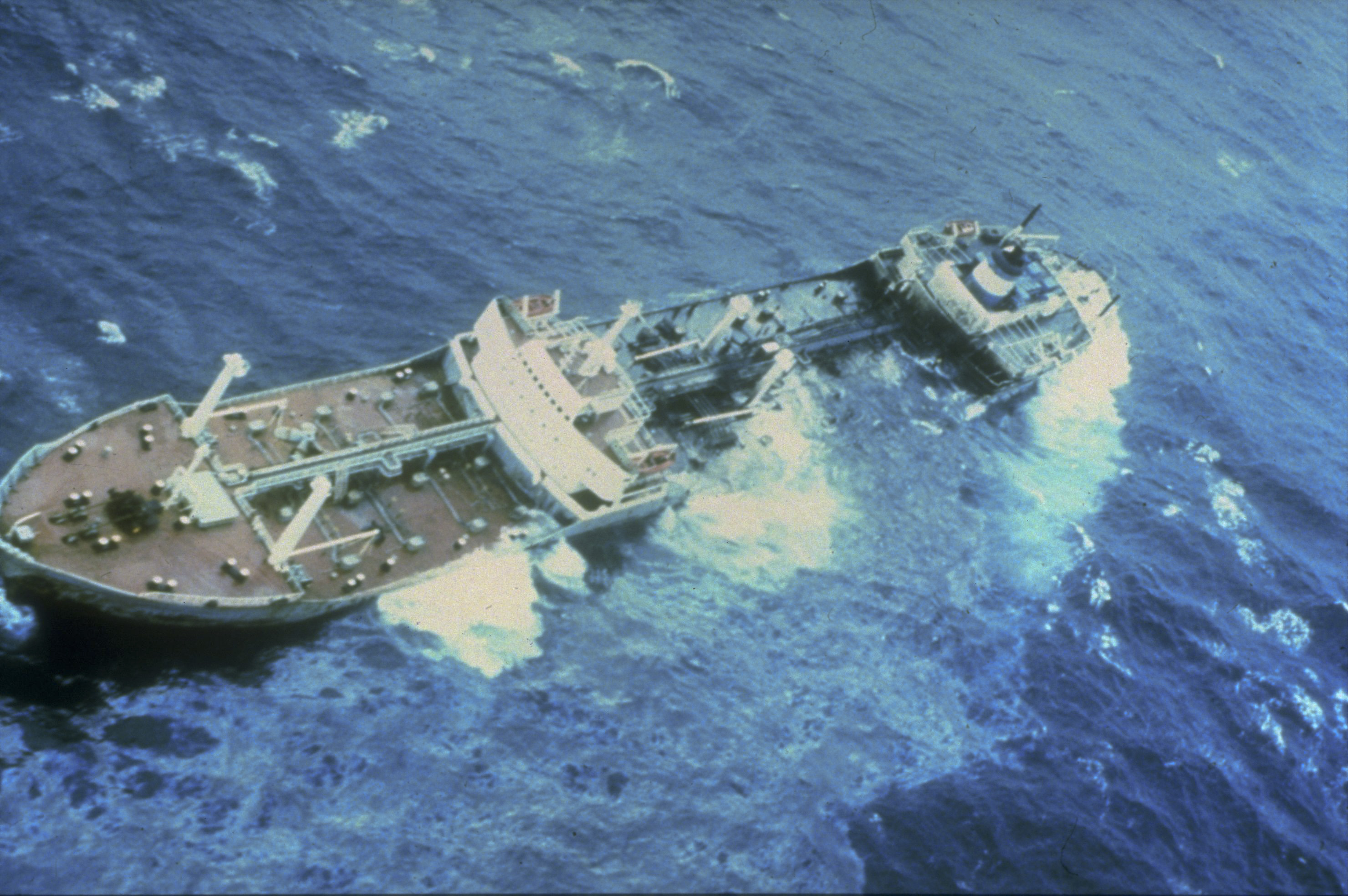 Argo Merchant oil spill. The ship broke apart and spilled its entire cargo of 7.7 million gallons of No. 6 fuel oil. Massachusetts, Nantucket Shoals.